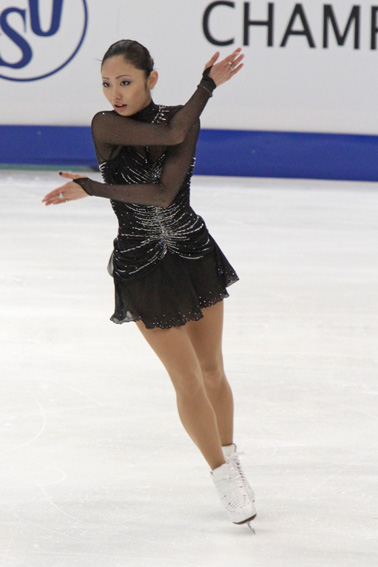 Miki Ando at the 2011 Four Continents Championships.